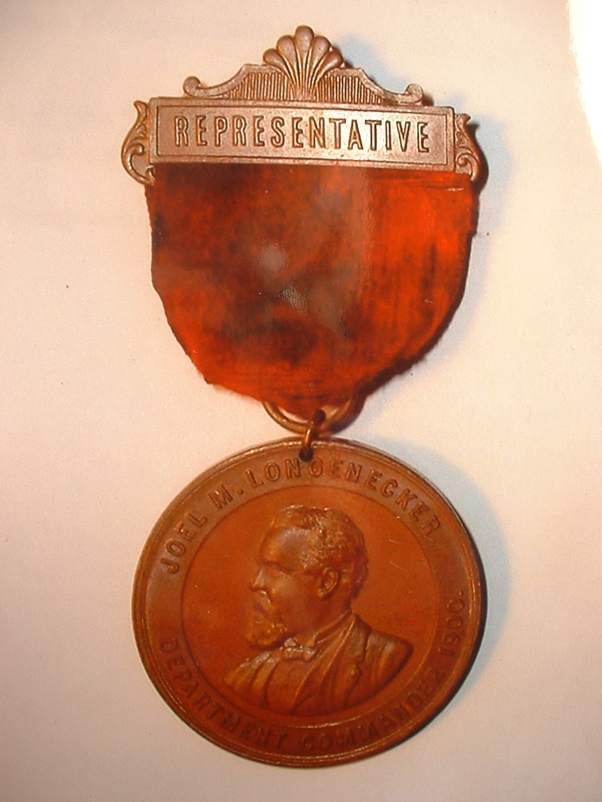 Ill. District Commander G.A.R. Bronze low-relief medal 38 mm dia. Category:Images of people from Illinois Category:Peoria